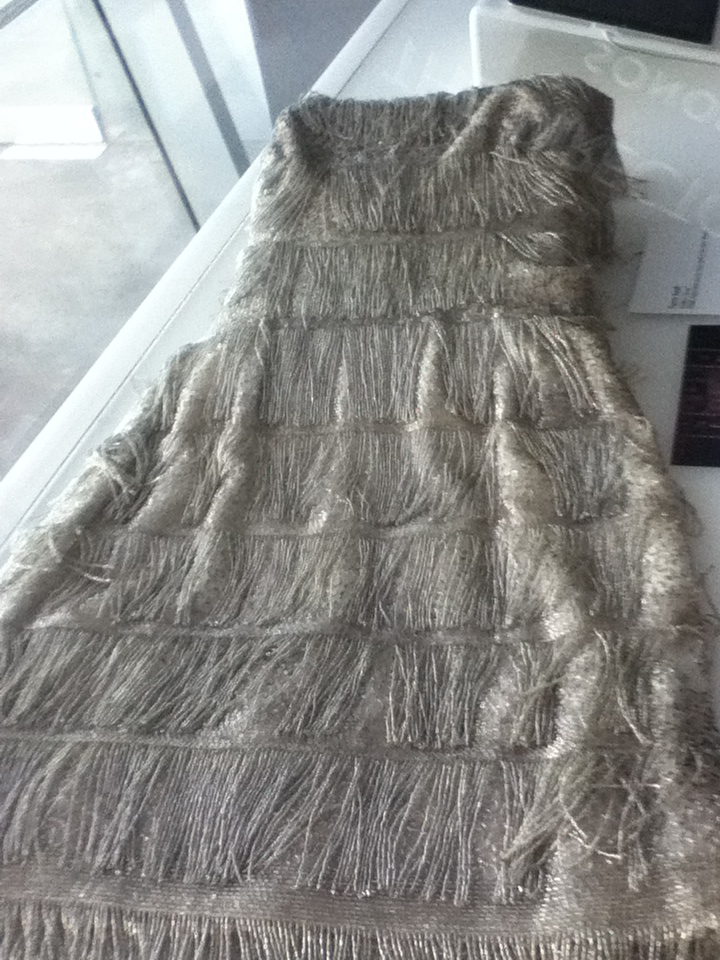 Taylor Swift's dress form the music video "Mean"